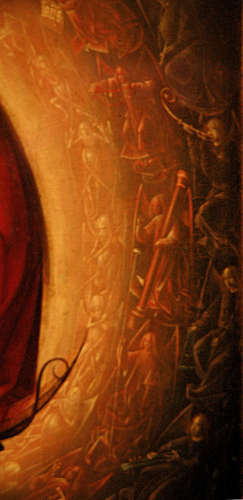 Detail from The Glorification of Mary by Geertgen tot Sint Jans.